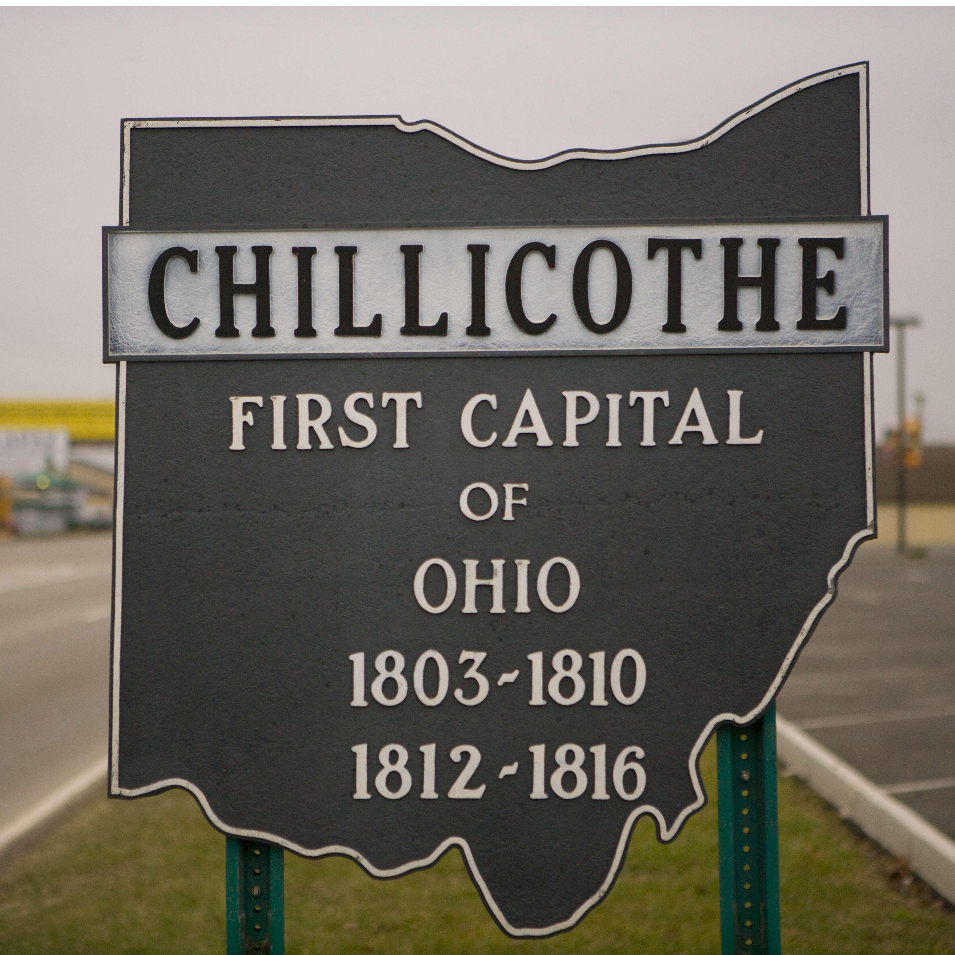 Sign at the edge of town for Chillicothe, OH